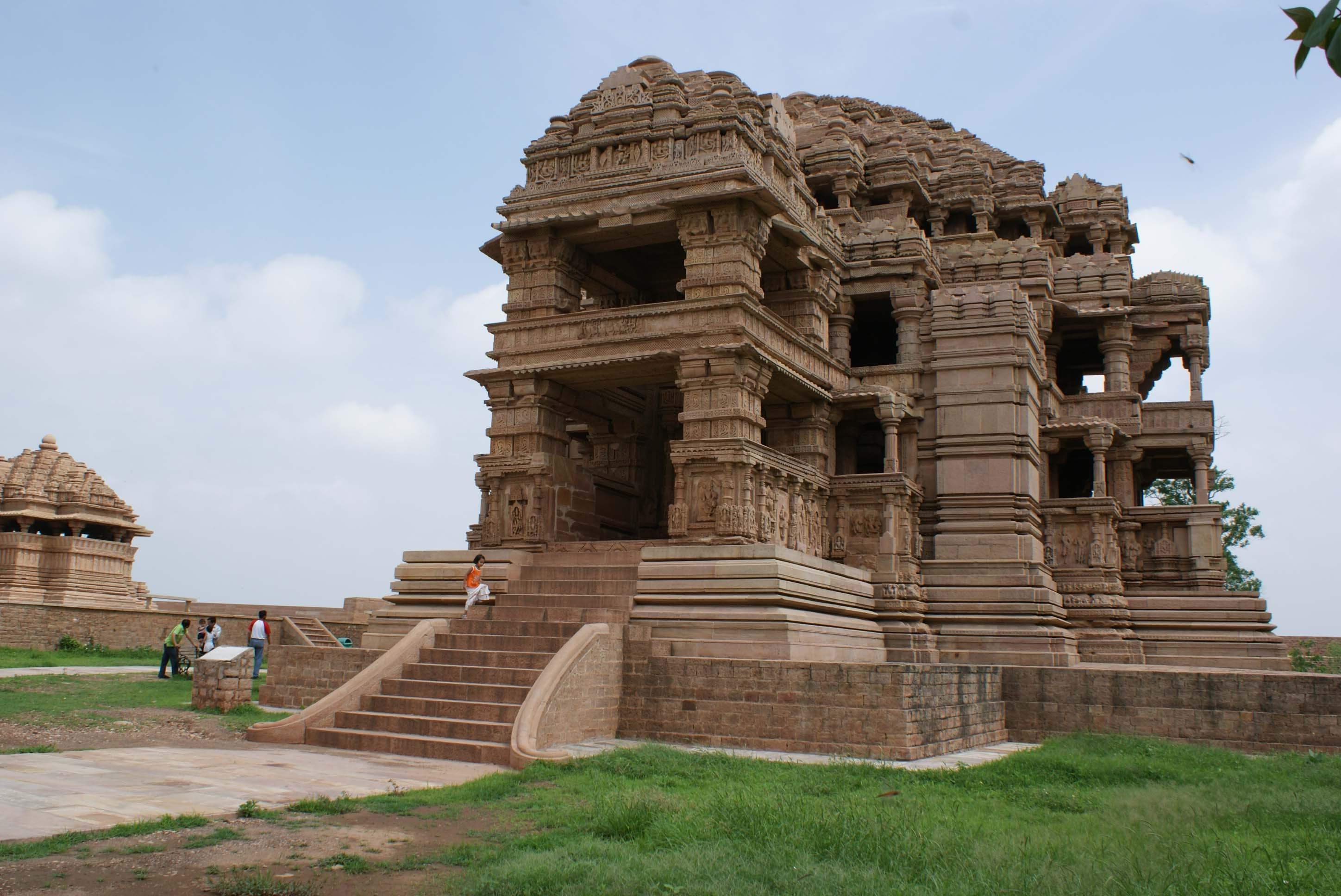 Gwalior Fort Temple